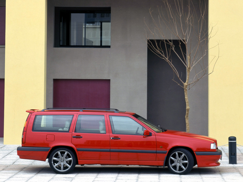 volvo 850 R in Torslanda, Sweden.